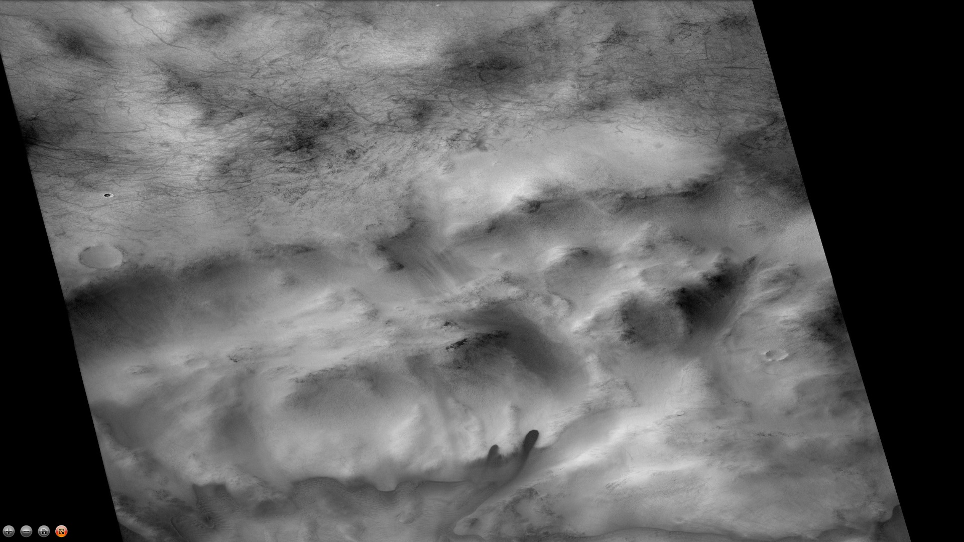 Maraldi Crater showing dust devil tracks, as seen by ctx